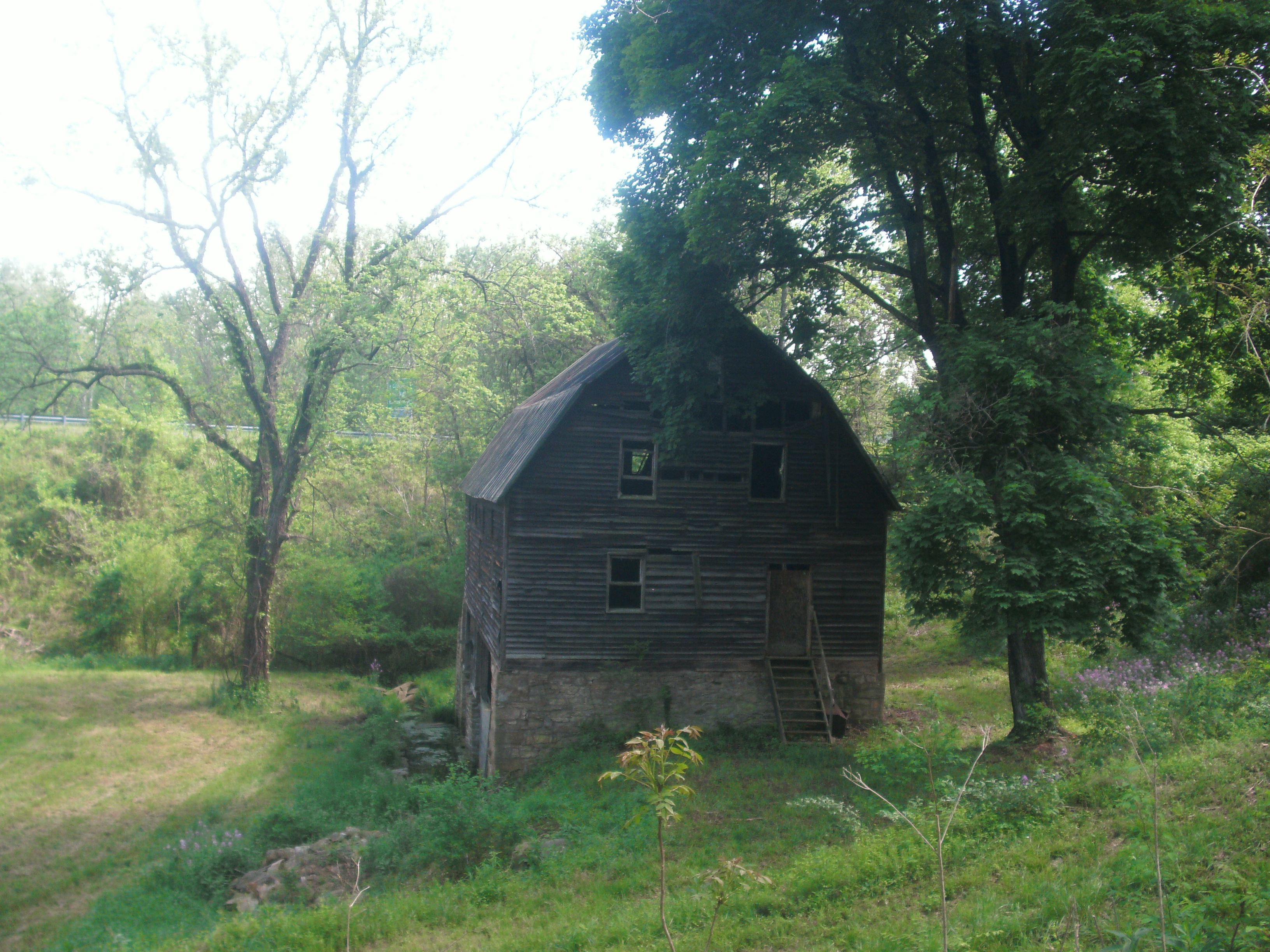 Taken by me in May, 2016 GEDSC DIGITAL CAMERA